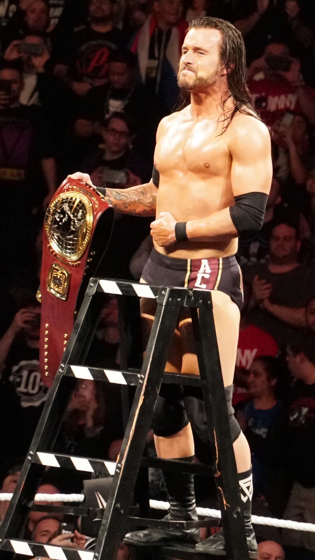 Adam Cole after winning the NXT North American Championship at NXT TakeOver: New Orleans.